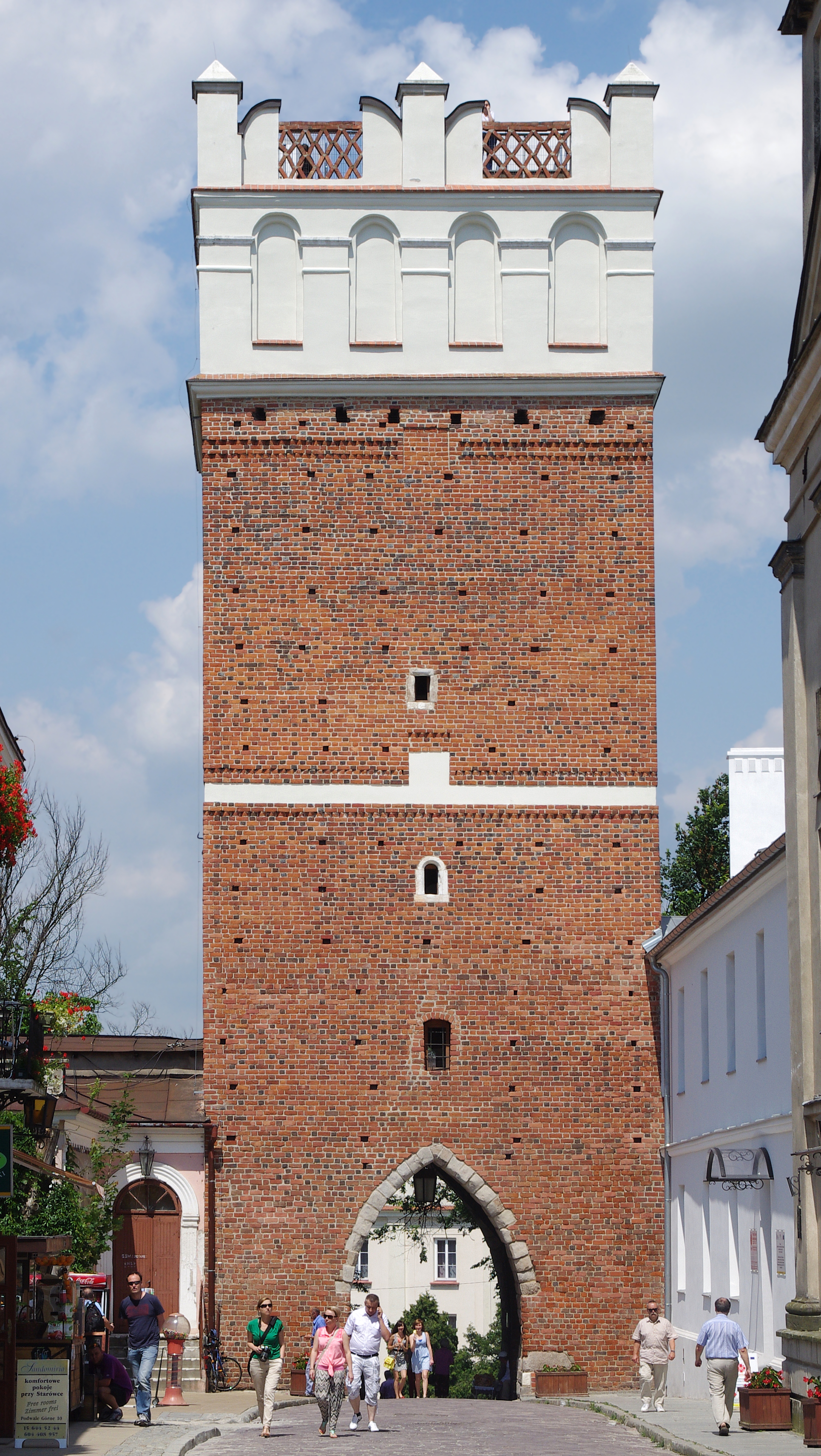 Opatowska Gate in Sandomierz